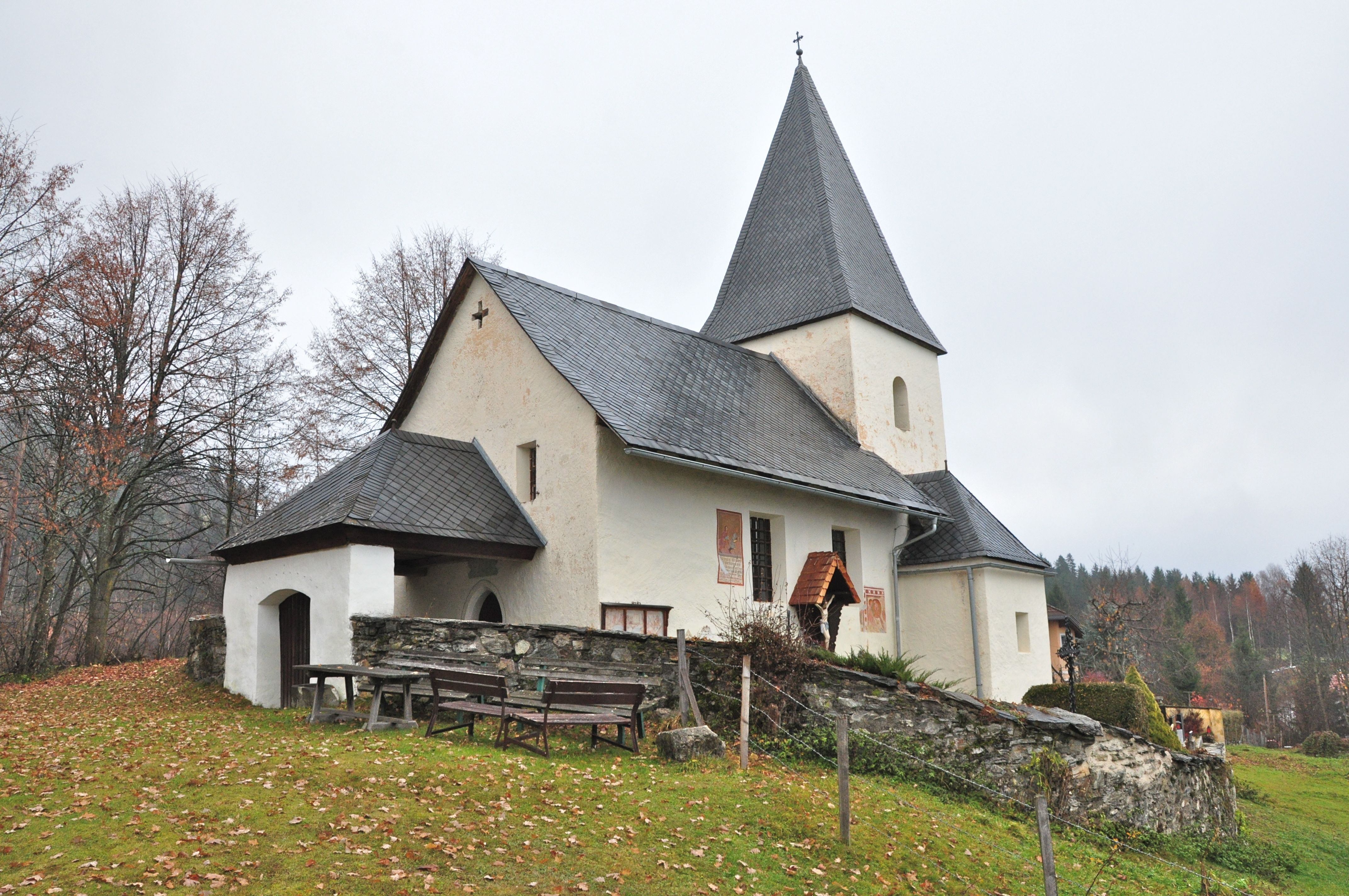 Subsidiary church Saint Thomas with cemetery at Werschling, municipality Himmelberg, district Feldkirchen, Carinthia, Austria, EU